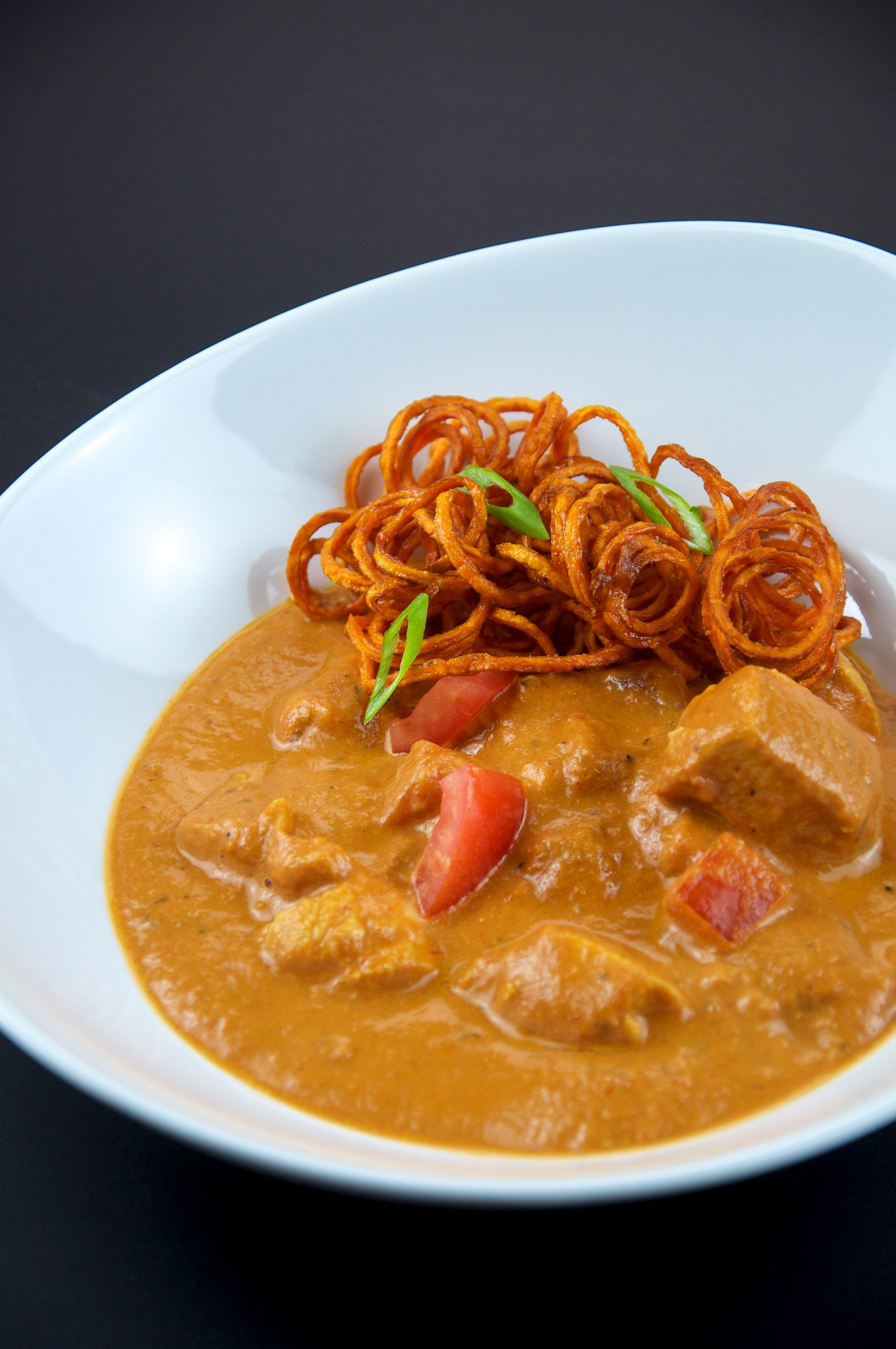 Chicken tikka masala. Photographed in the Oakmore neighborhood of Oakland, California, USA.